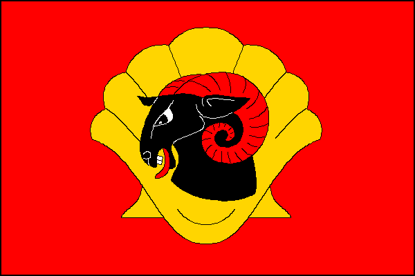 Municipal flag of Želetice village, Znojmo District, Czech Republic.